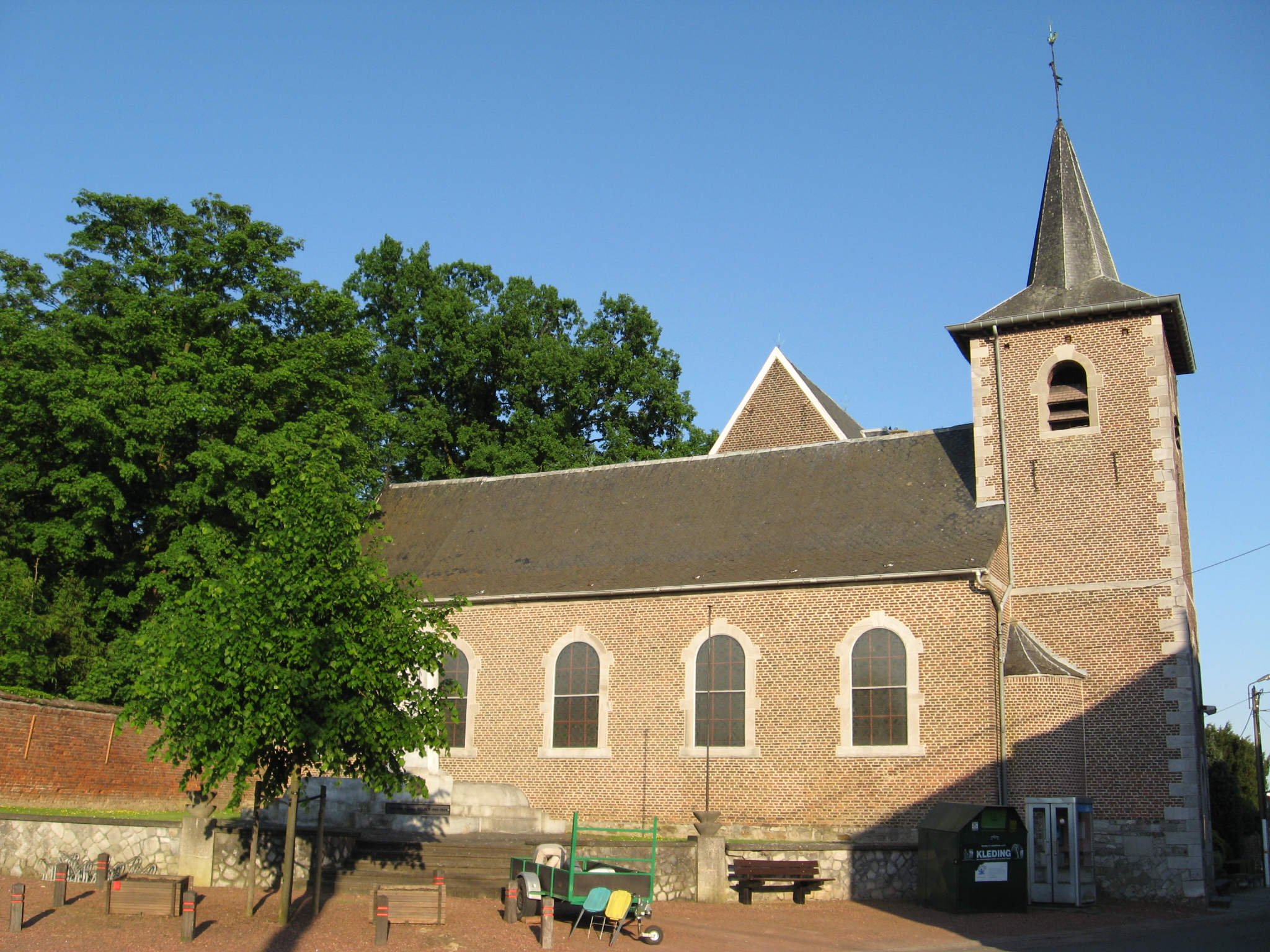 Church of Saint Pancras in Waasmont, Landen, Flemish Brabant, Belgium